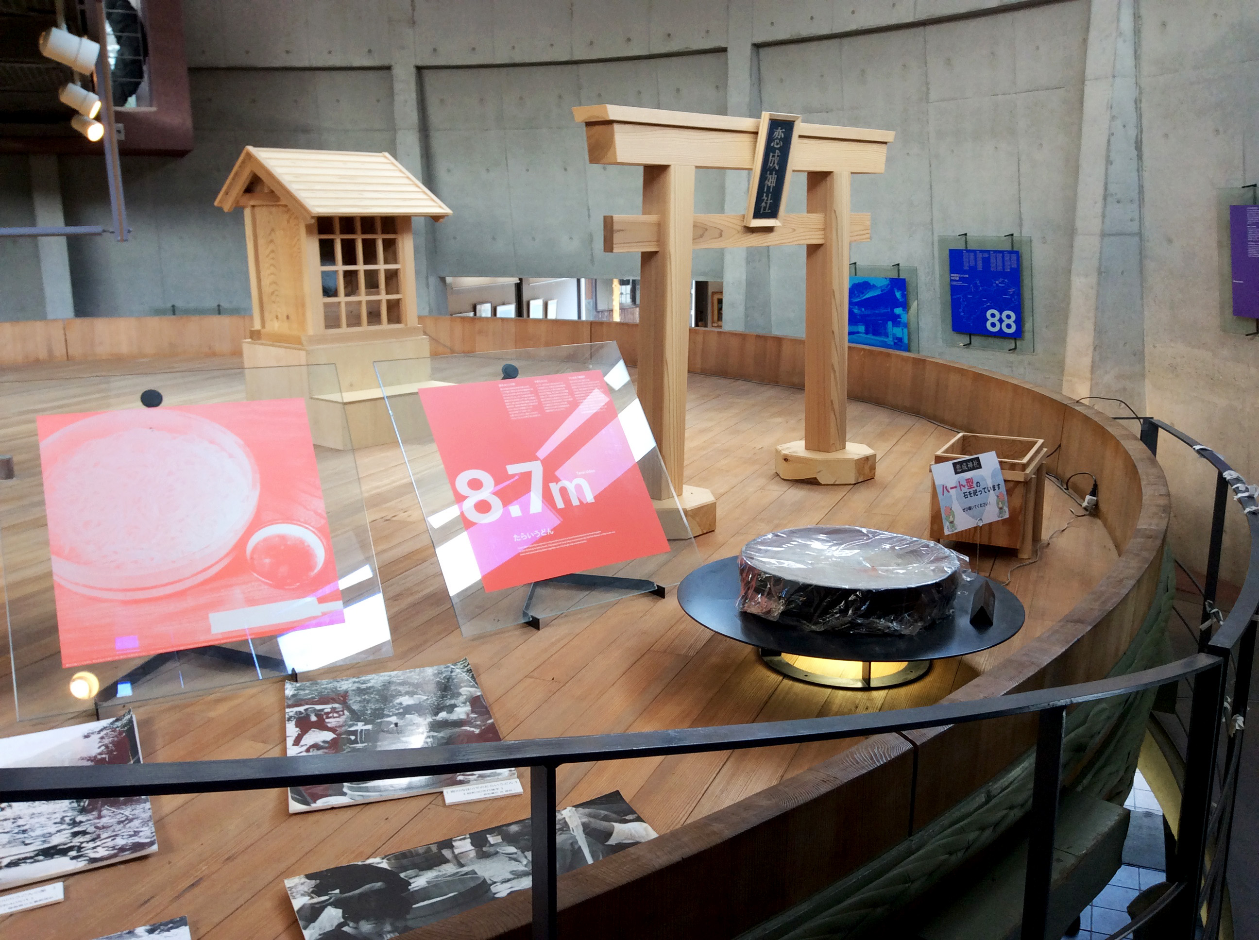 koinari Shrine